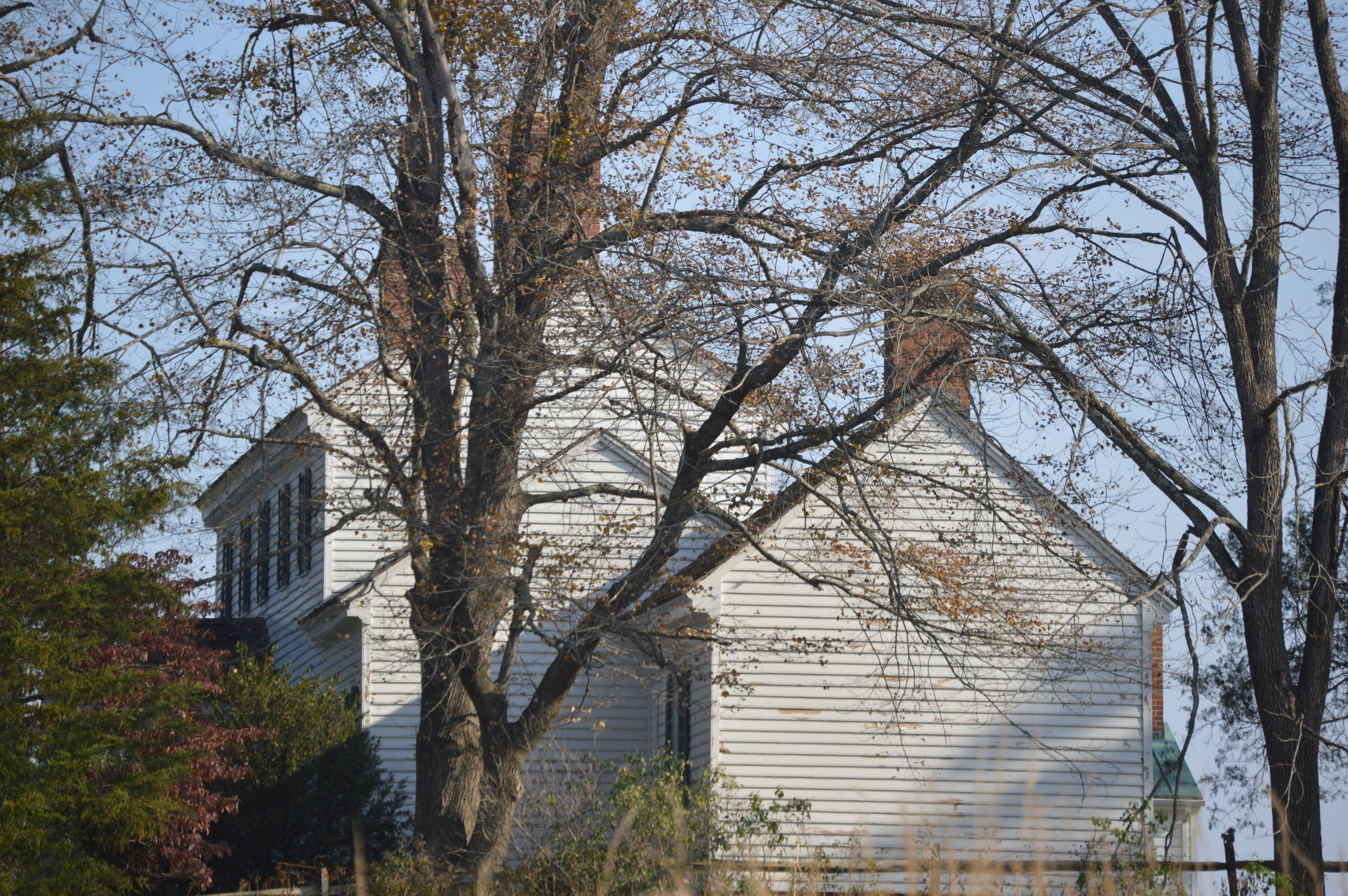 Roadside view of Greenfield, located on Greenfield Road east of Charlotte Court House in Charlotte County, Virginia, United States. Built in 1771, it is listed on the National Register of Historic Places.